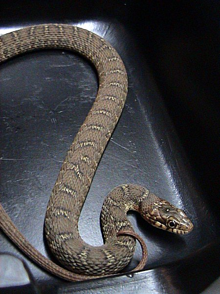 Nerodia erythrogaster transversa. Animal courtesy of Austin Reptile Service.